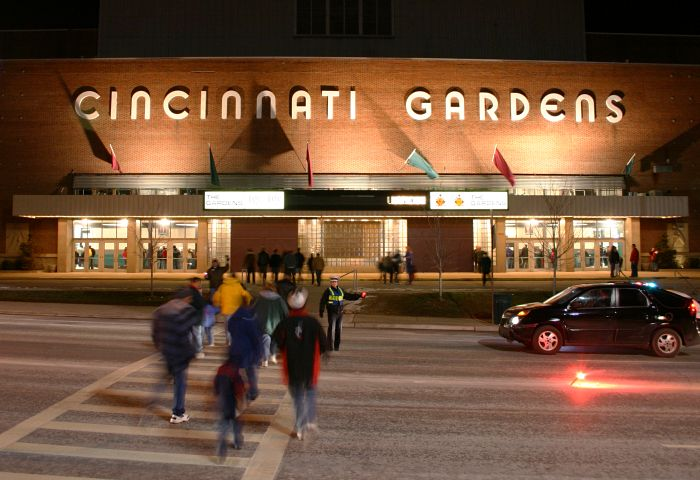 Fans enter the Cincinnati Gardens in mid-winter for a Cincinnati Mighty Ducks ice hockey game